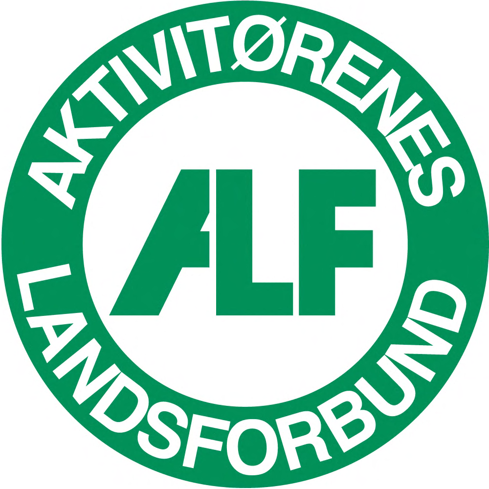 Delta